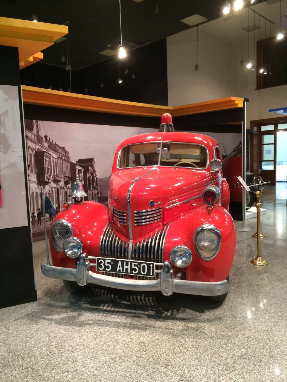 The car used by the Director of İzmir İtfaiyesi (Firefighters of Izmir) in 1940s, today at the "Ahmet Priştina Kent Müzesi" or İzmir City Museum.